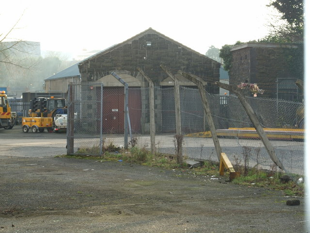 Former Engine Shed What must be the only building left of the old GNR(I) railway line that ran through Banbridge until 1955. It's the former engine shed that is now used by Ulster Bus, whose depot is on the site of the now demolished station. Easy to spot from the walk alongside the Ban river it is almost invisible from the Downshire road running alongside it.